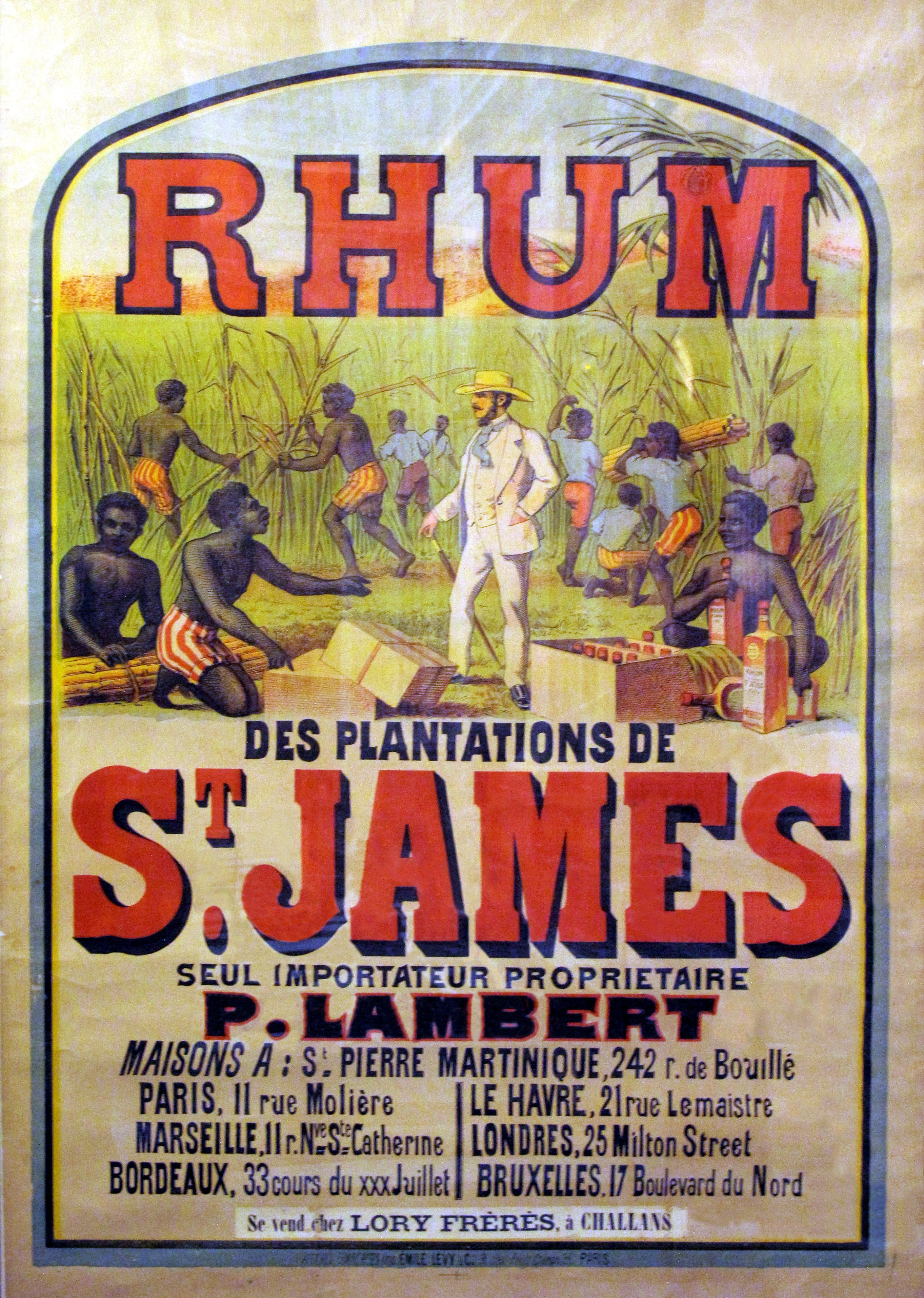 Advertisement for rhum Saint-James. Anonymoius, circa 1888. On display at Marseille chamber of Commerce